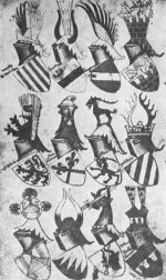 Folio 68v from Armorial Bellenville